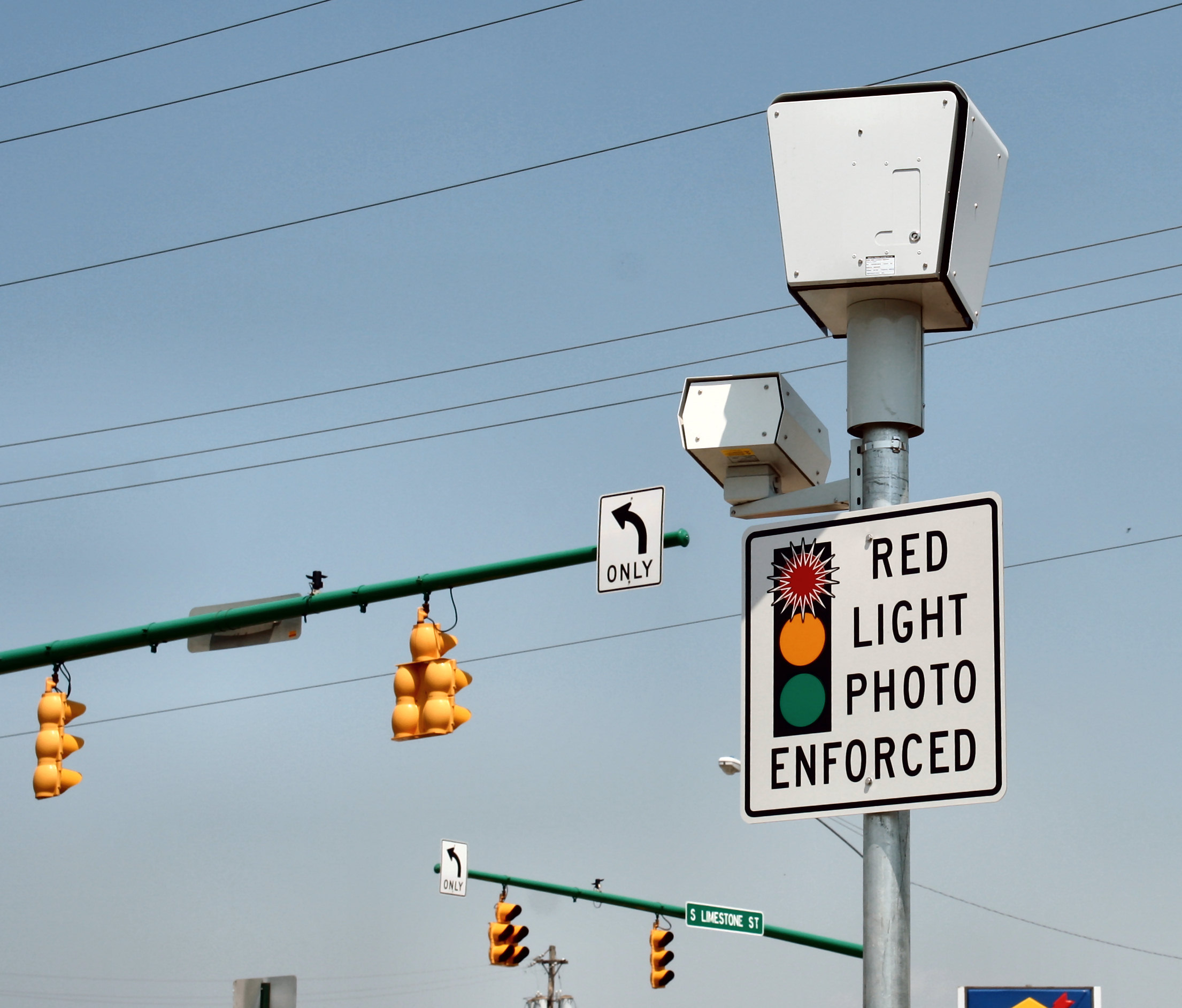 Red light camera system at the Springfield, Ohio intersection of Limestone and Leffels.